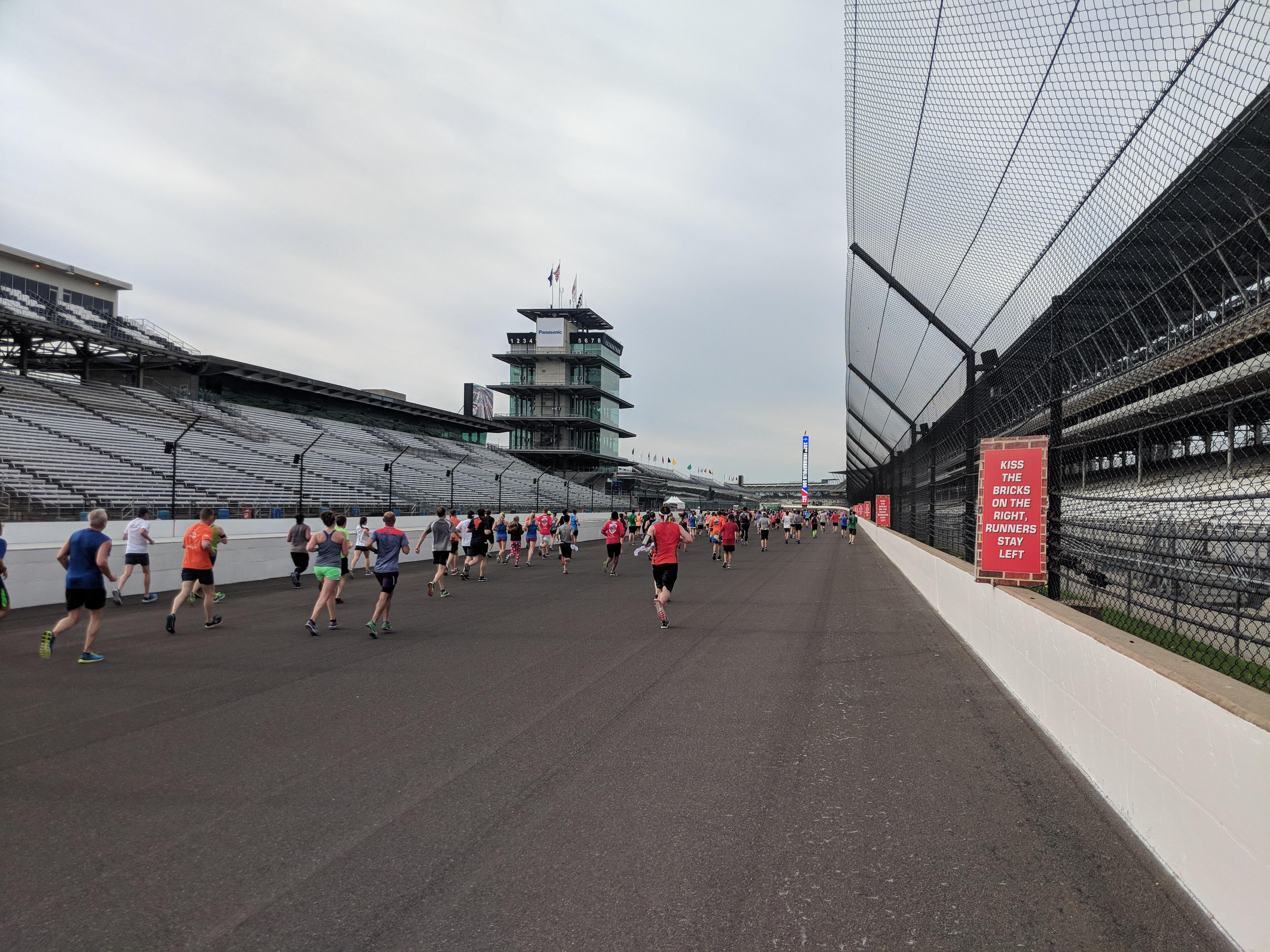 Mini-marathoners running on the Motor Speedway